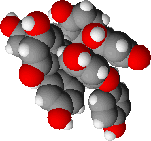 3D structure of kobophenol A